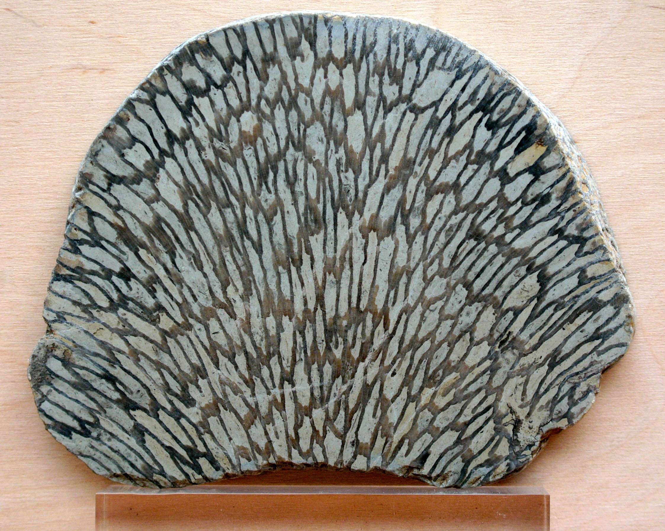 Silurian fossil coral (Halysites) from Gotland, Sweden